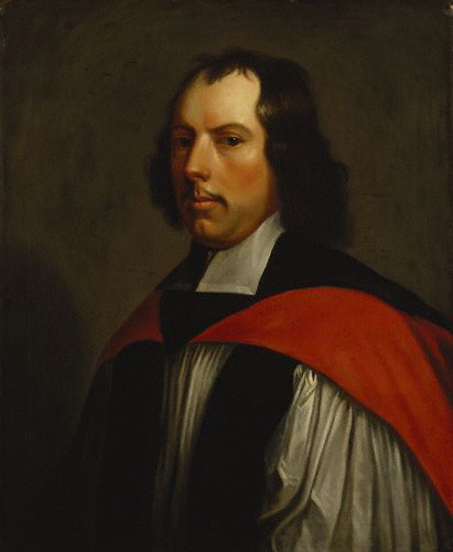 Thomas Cartwright (1634-1689)